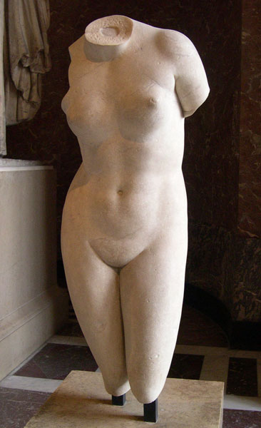 Torso of the Cnidus Aphrodite type. Marble, Roman copy from the imperial period (2nd century AD ?) after a Greek original (4th century BC).